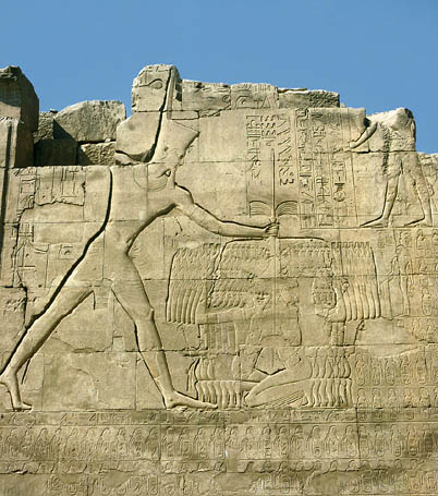 Tuthmosis III. smiting the Canaanite enemies from the seventh pylon at Karnak describing the Battle of Megiddo, 15th Century BC. Relief at Karnak